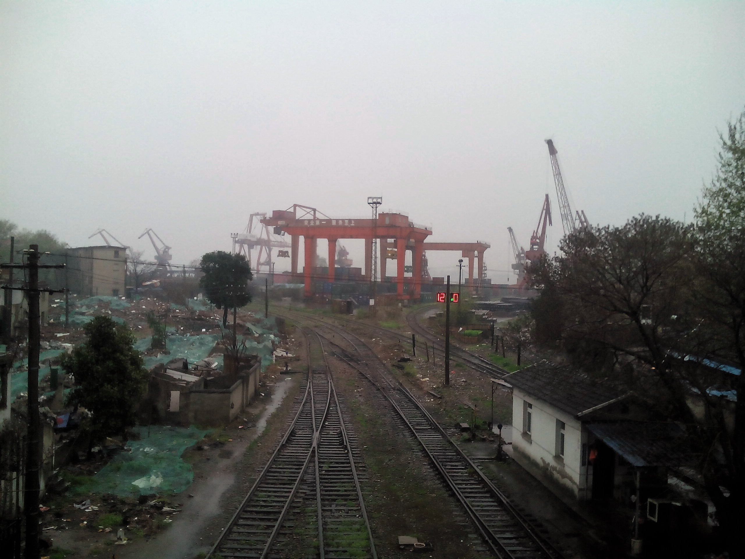 201504 Intermodel Container Transfer Station at Nanjingbei